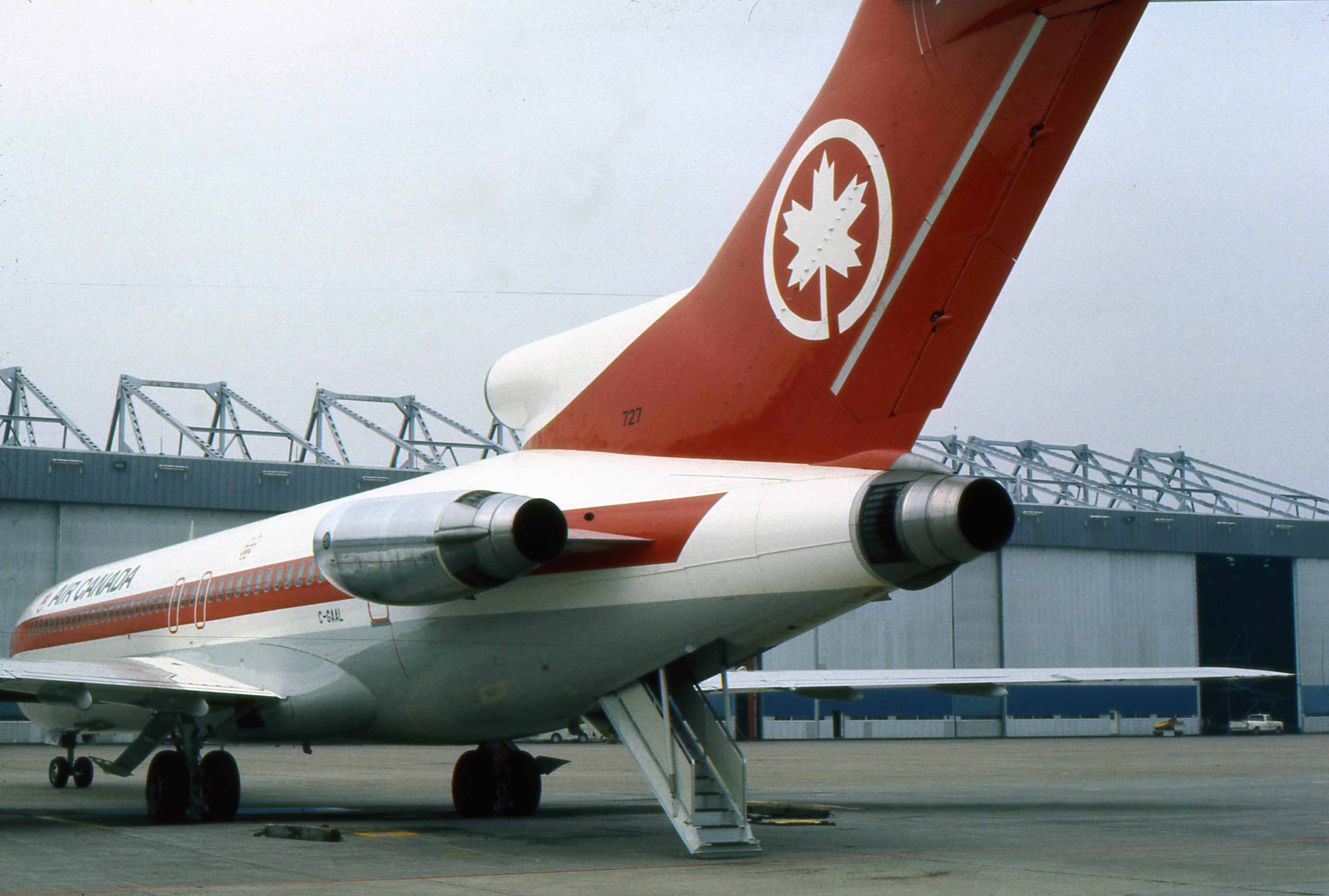 Canada, Air Canada Boeing 727-233F C-GAAL, c/n 21100/1148, first flight in 1975-07-23. Delivered to Air Canada in 1975-08-21, withdrawn from use in February 1991 and leased to Air Transat. Bought by CIT Leasing in April 1992 and registered N727SN. Delivered to Amerijet International in December 1994, converted to freighter and re-registered N395AJ. Here is taken at Air Canada mainatenance base.